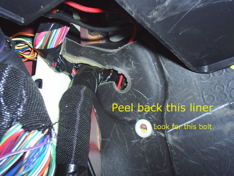 Insulation removal from interior of Jeep Liberty in preparation of firewall penetration